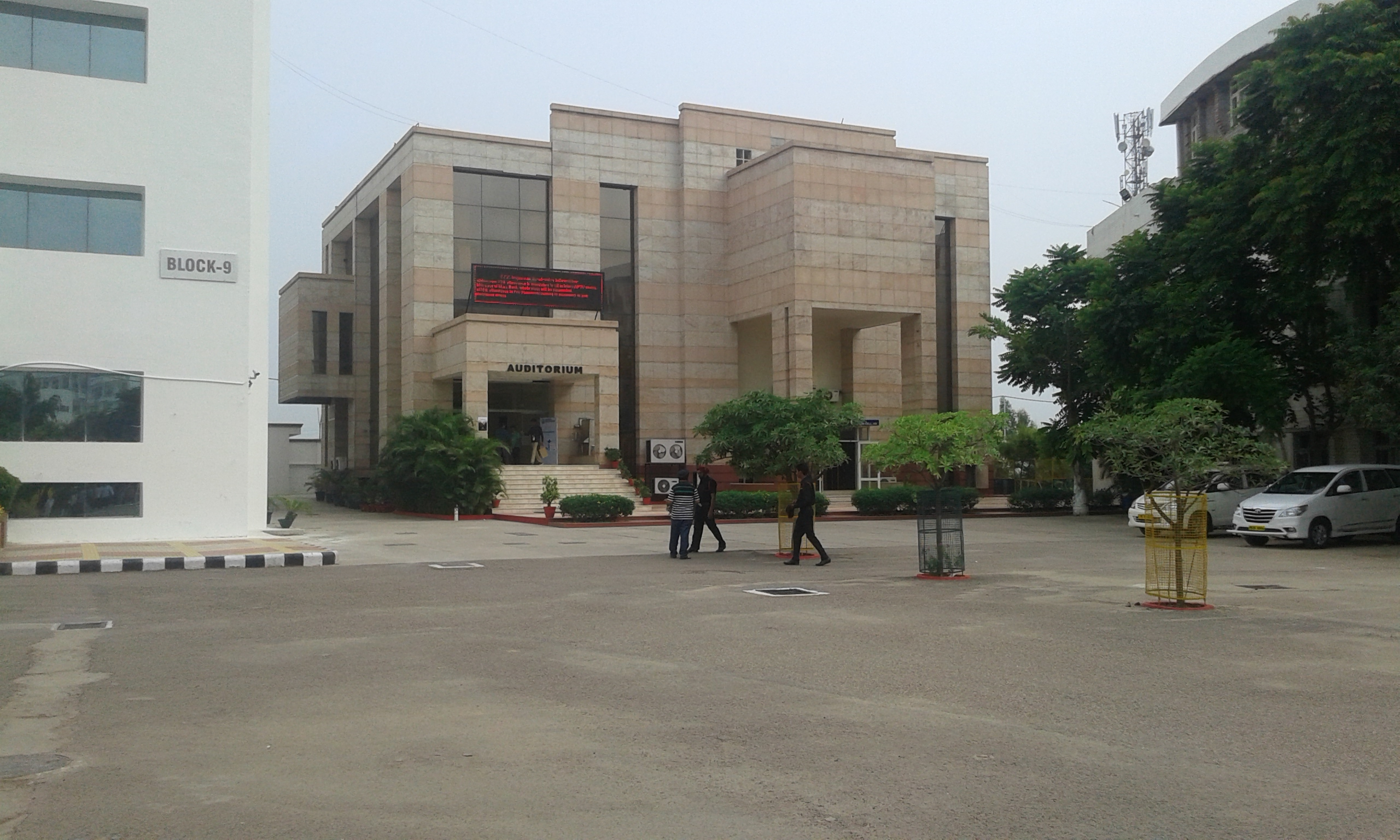 Chandigarh Group of College's Auditorium